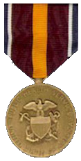 Public Health Service Distinguished Service Medal